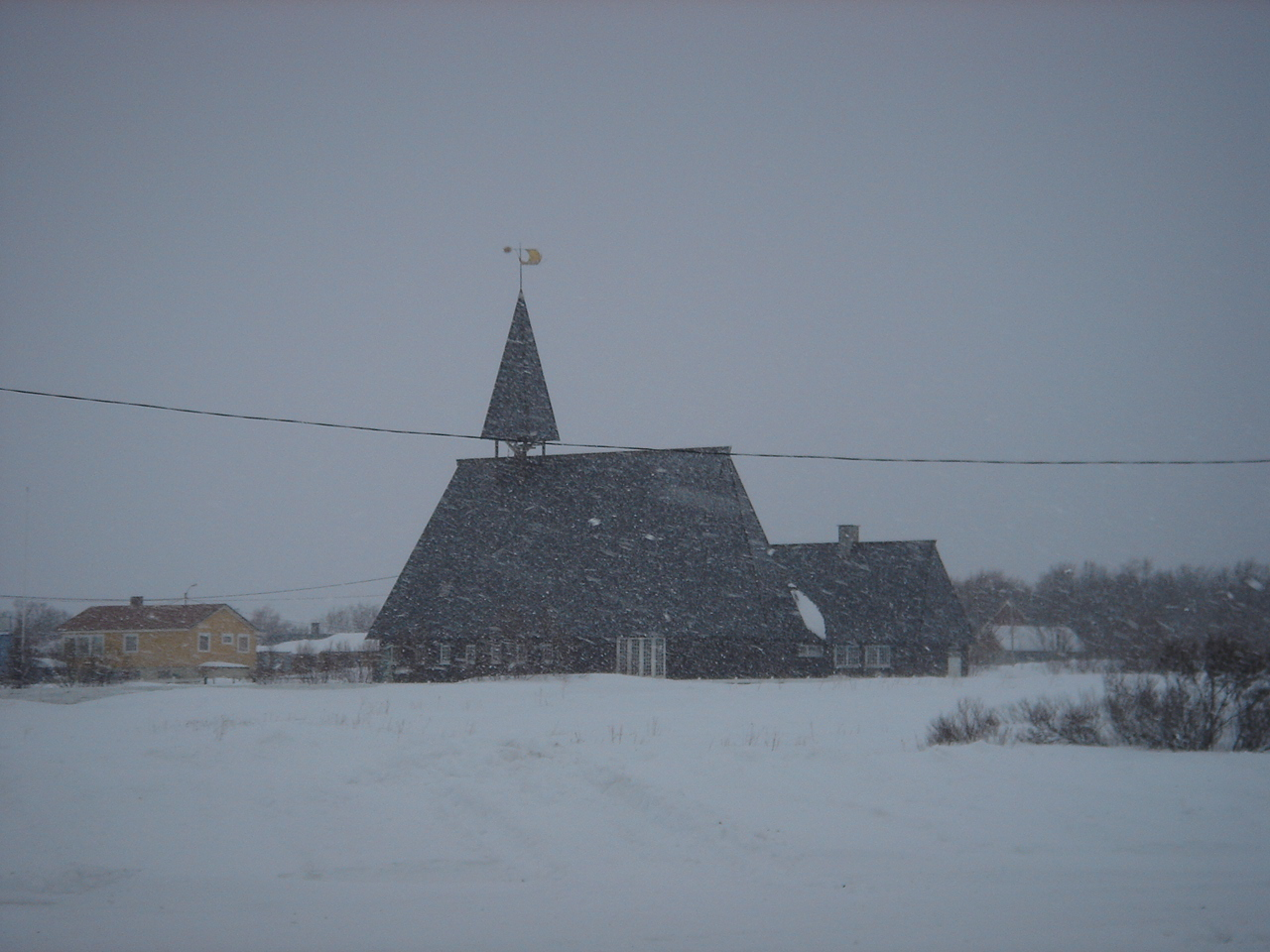 Lebesby kirke i snøvær/ Lebesby Church in snowy weather